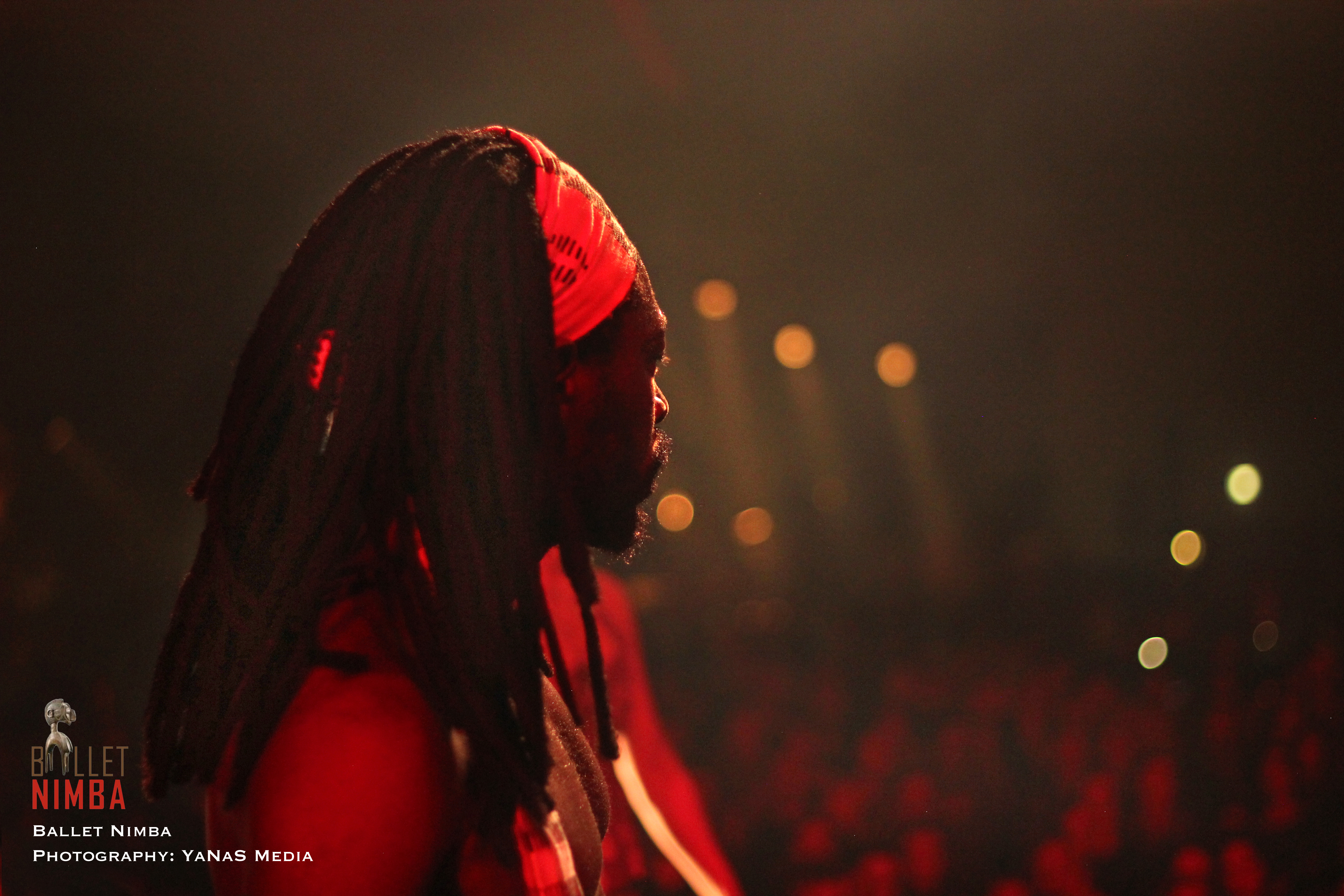 Idrissa Camara, artistic director of Ballet Nimba looks out at the crowd at the 2013 Festival Complet Mandeng in France